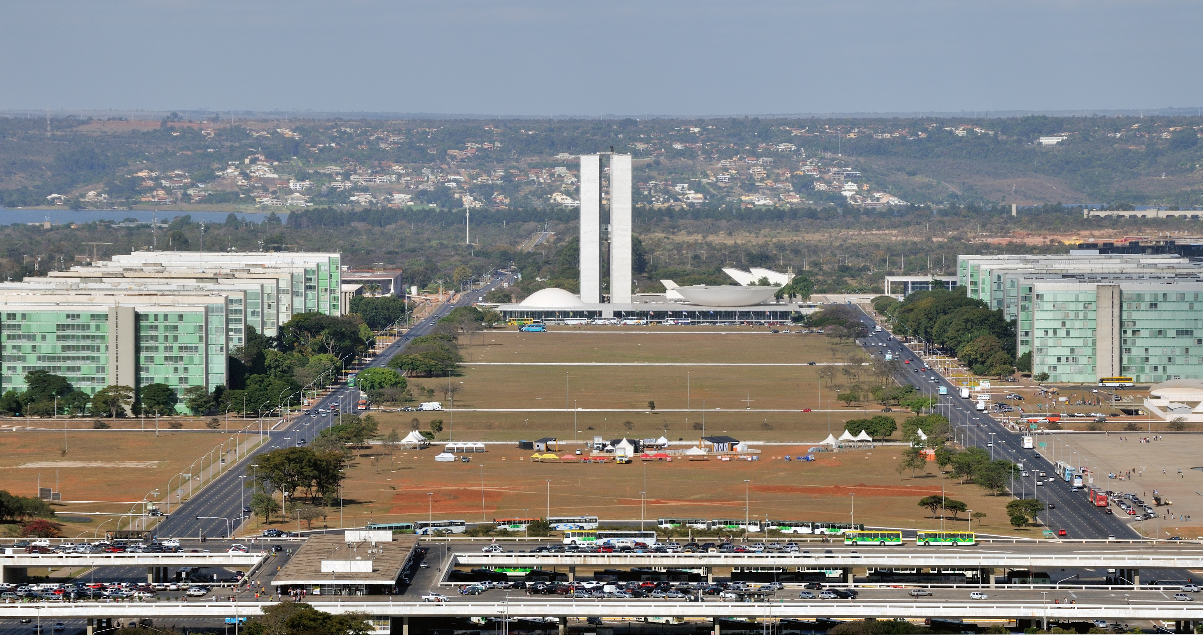 Brasilia, capital of Brazil, as seen from the TV tower: eastern part of Eixo Monumental, National Congress buildings (two towers and two hemispheres) and ministries (in green on both sides).